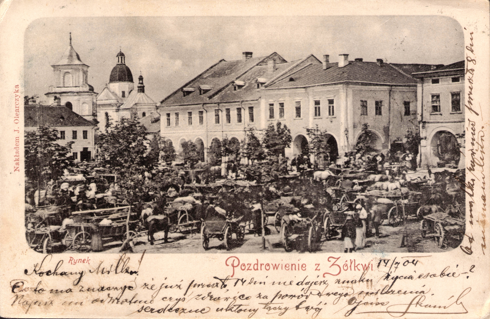 Old postcard from Zhovkva